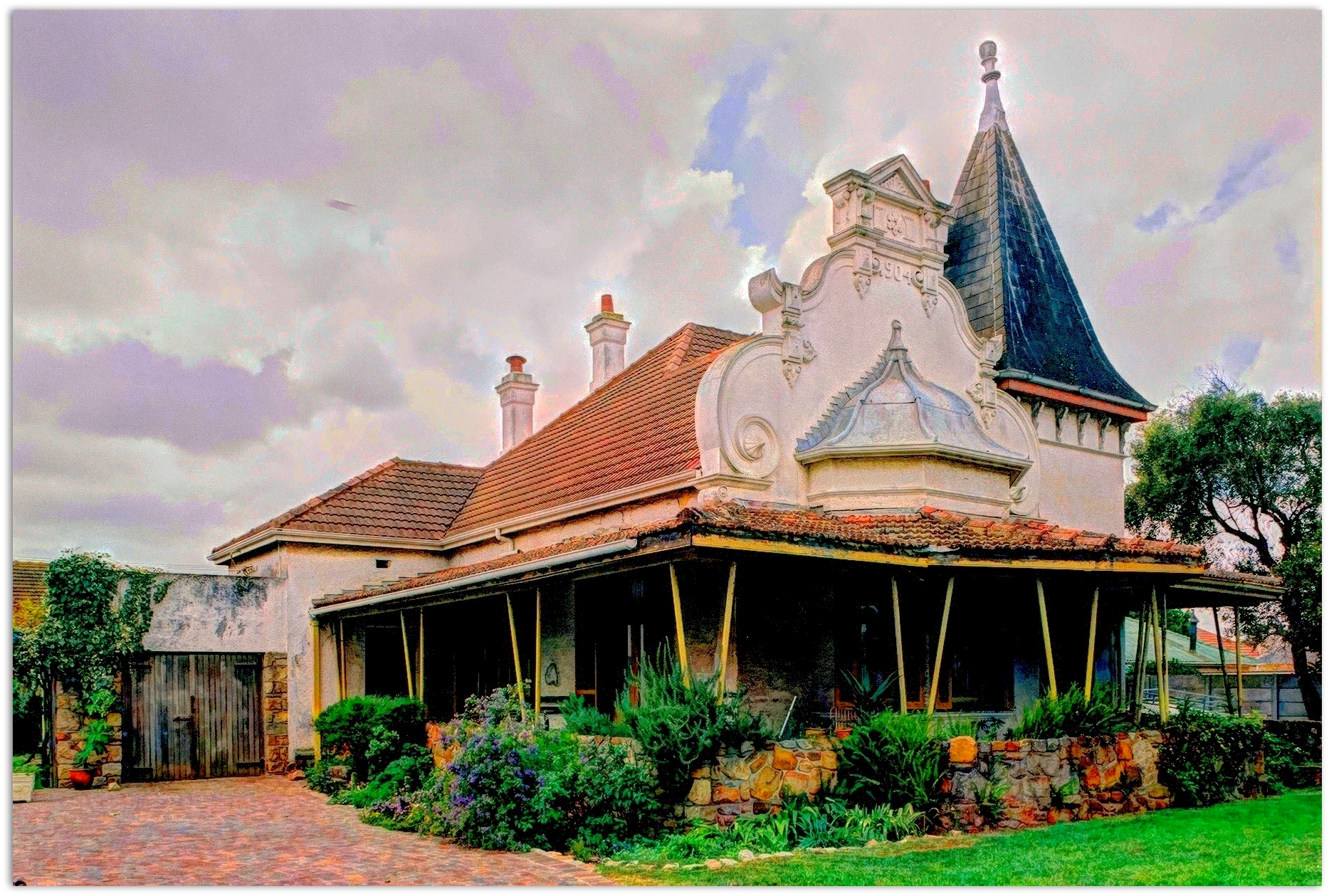 Old House This media shows a South African Protected Site with SAHRA file reference Claremont Cape Town.